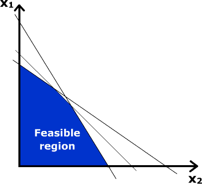 A graph showing how a series of linear constraints on two variables produce a feasible region in a linear programming problem.